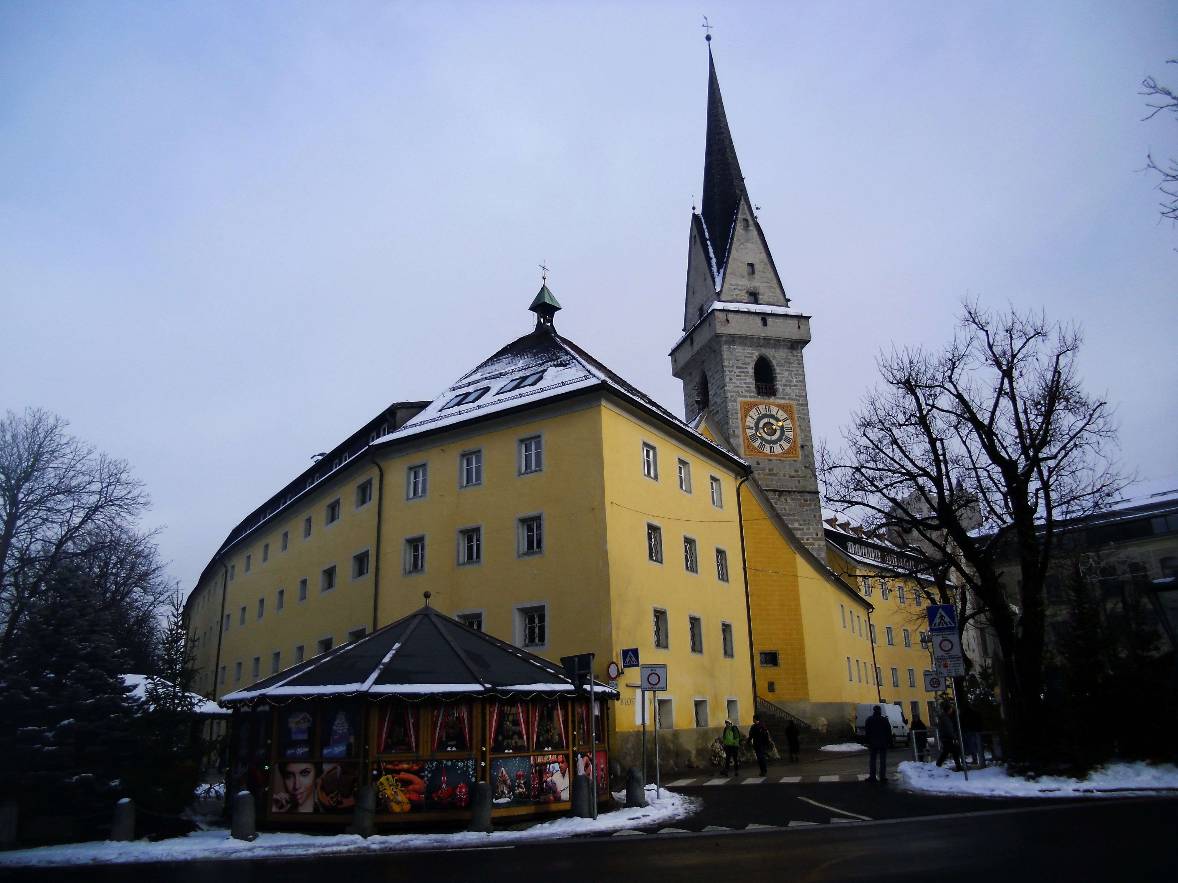 Ursulinenkloster und -kirche zum Heiligen Erlöser